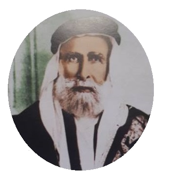 Sharif Husayn bin Ali al-hashimi